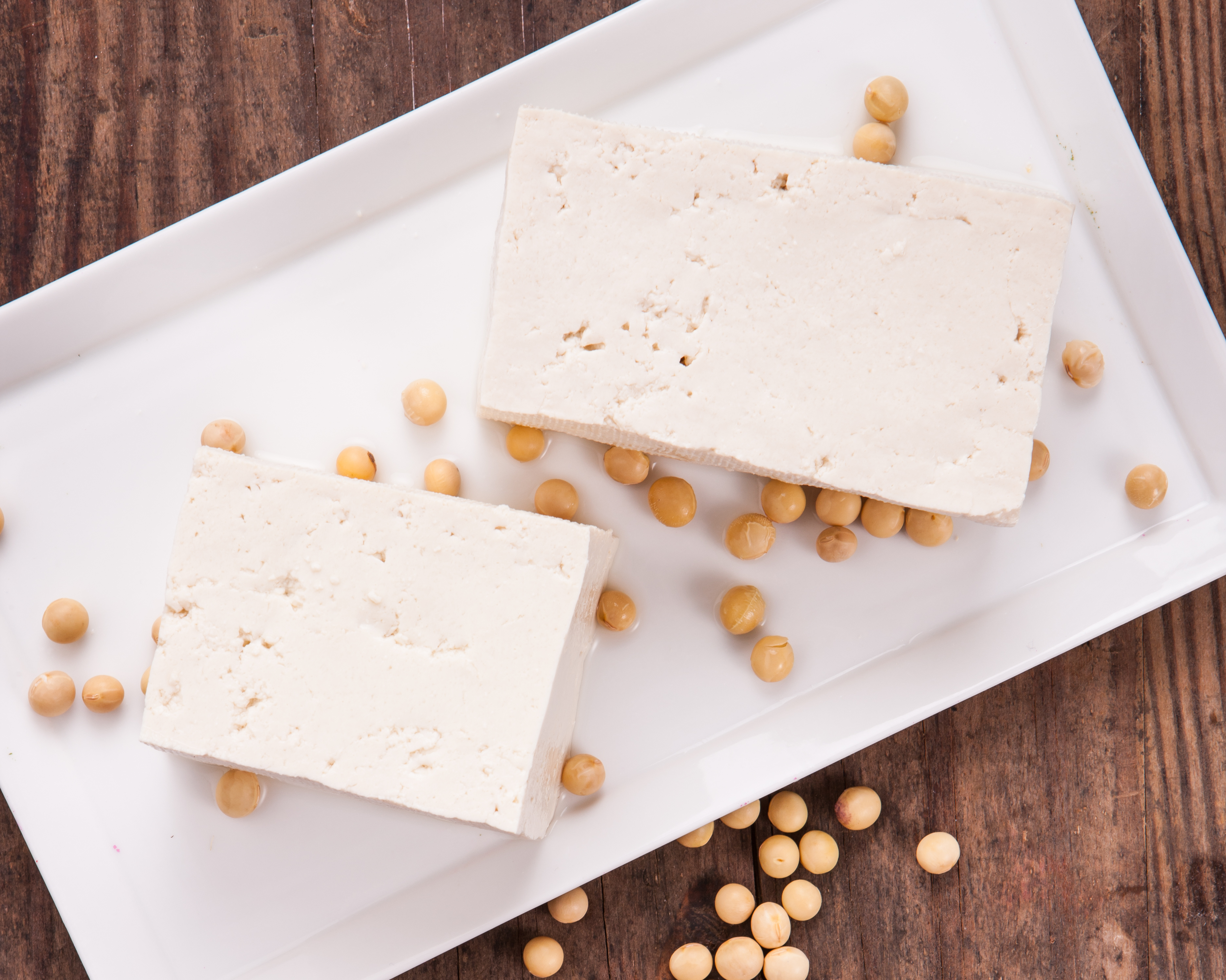 Tofu